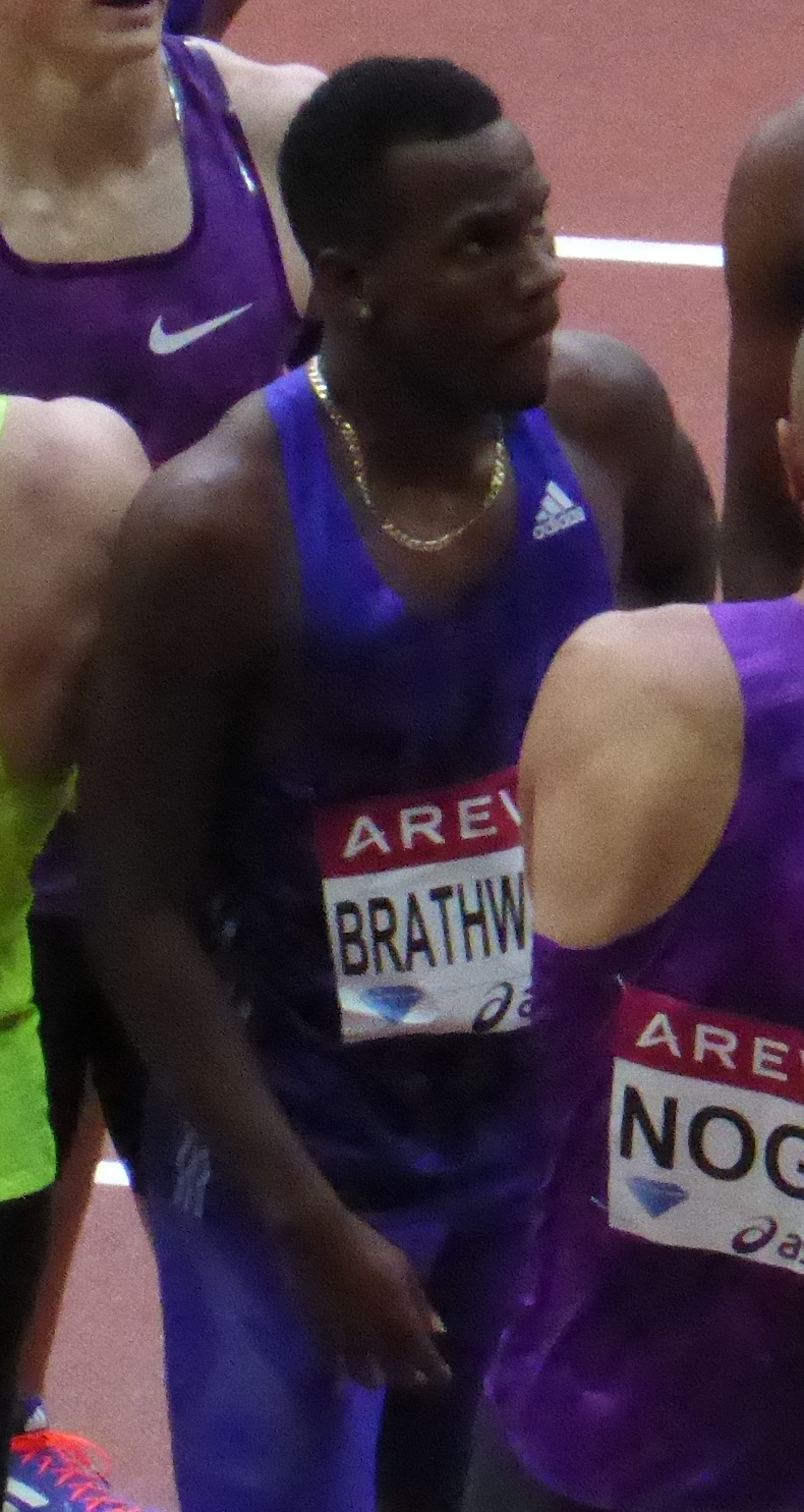 2015 Meeting Areva, Stade de France, Paris.